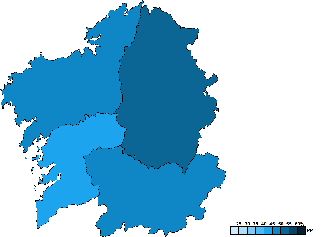 Provincial results for the 2012 Galician regional election.